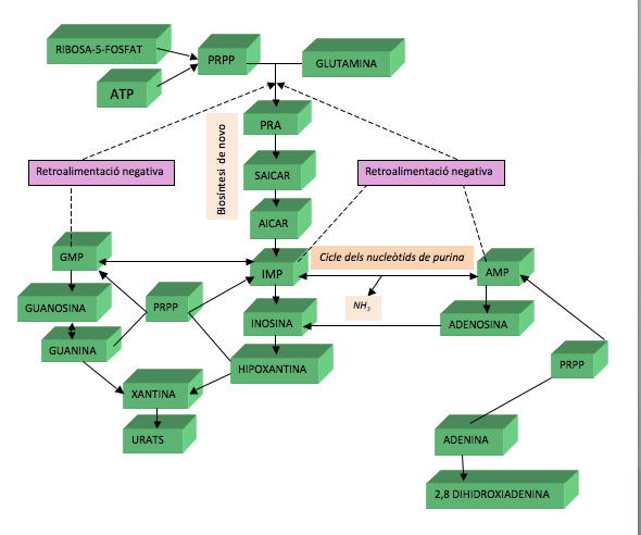 Purine production cycle